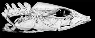 Cropped from file:Comparison of CT scans of heads of Mastacembelus species - 177-734-1-PB.jpeg, which has the following description: These 3D scans were generated using high-resolution x-ray computed tomography. Each image is the result of over 2000 individual x-rays of the whole animal, which are then compiled to produce 3D images displaying only the bone structure underneath the skin. The skulls displayed here are different species of spiny eels that are found only in Lake Tanganyika, East Africa, where 14 species have diversified in terms of genetics, ecology and morphology. This comparison demonstrates the striking diversity in skull structure and function of four of Lake Tanganyika's spiny eels. These morphological differences are correlated to differences in feeding strategy, and, like Darwin's famous finches, are indicative of an adaptive radiation, where species rapidly evolve from a common ancestor through adaption to different environments. (Clockwise from top left: Mastacembelus albomaculatus, M. moorii, M. platysoma, M. apectoralis).